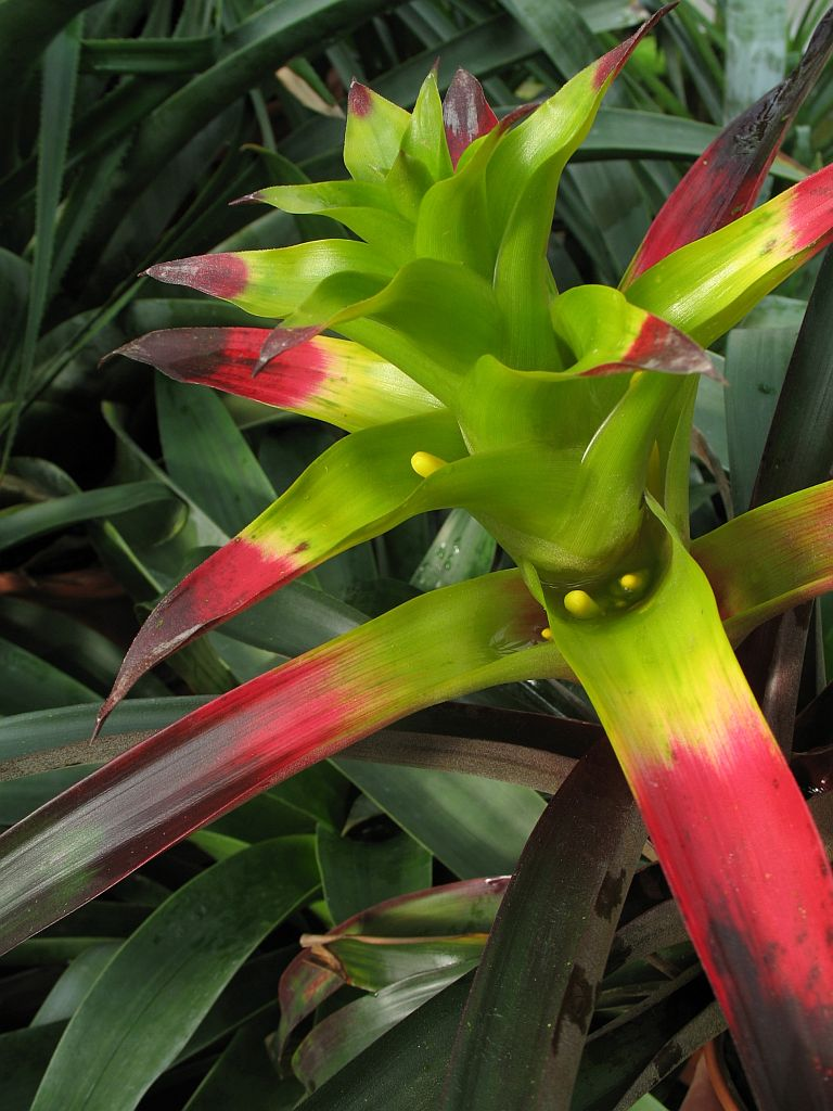 Guzmania squarrosa in cultivation at the Botanical Garden of Heidelberg, Germany.